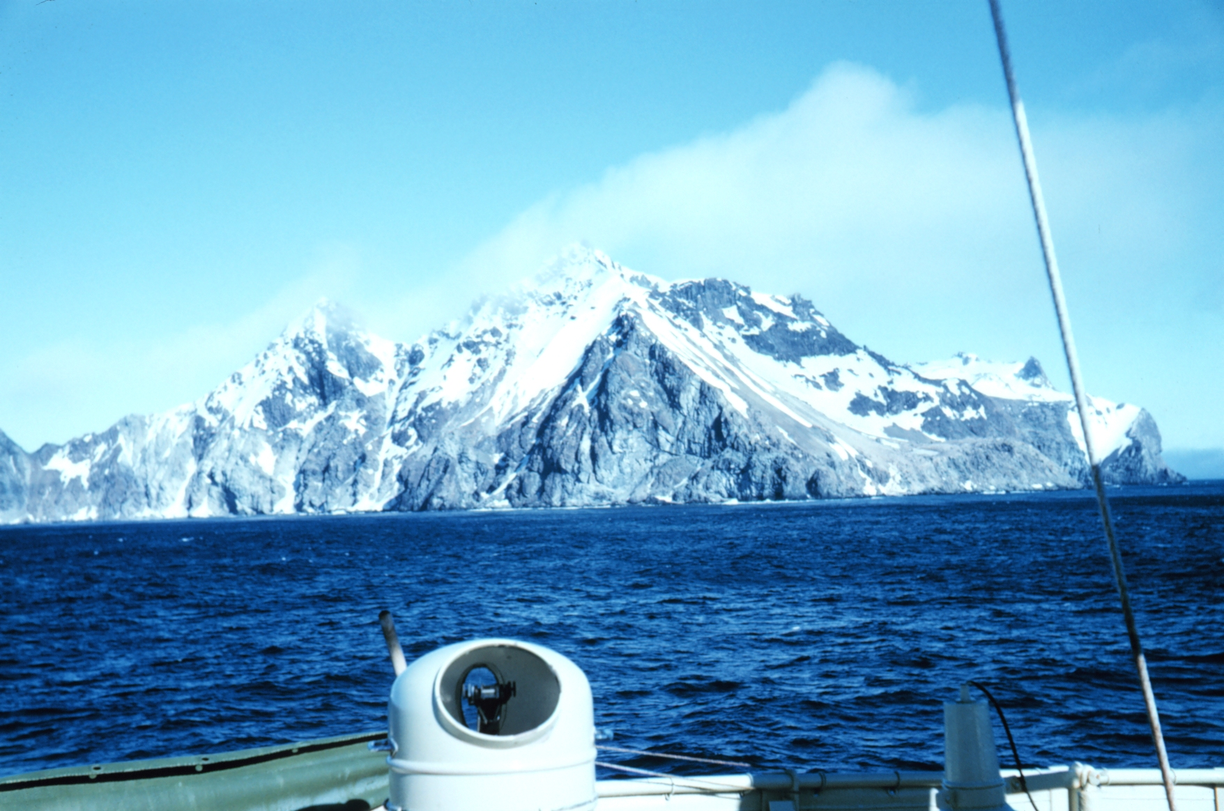 Cornwallis Island, South Shetland Islands, Antarctica